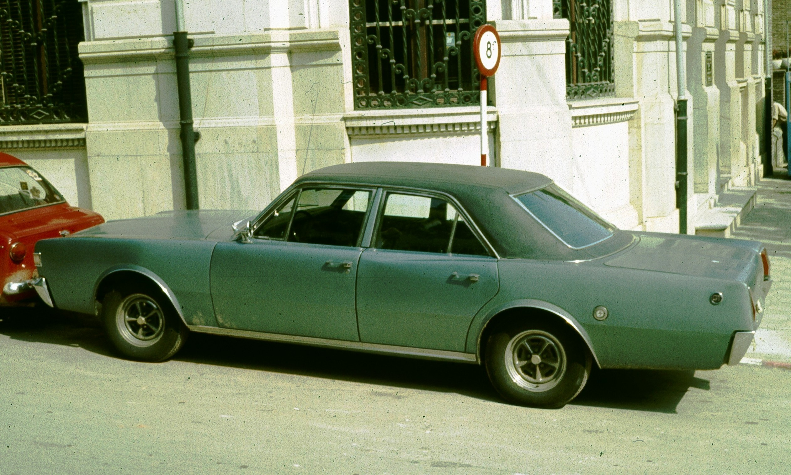 Dodge 3700 by Barreiros in a small town near Oviedo (version based on Dodge Polara).